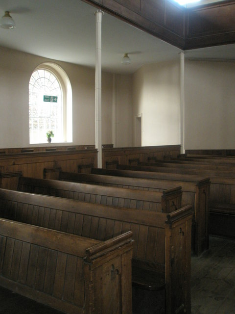 Inside St John the Evangelist's church, Chichester, West Sussex